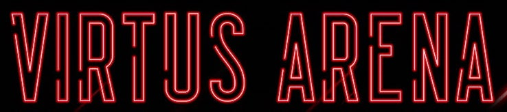 Logo fo Virtus Arena